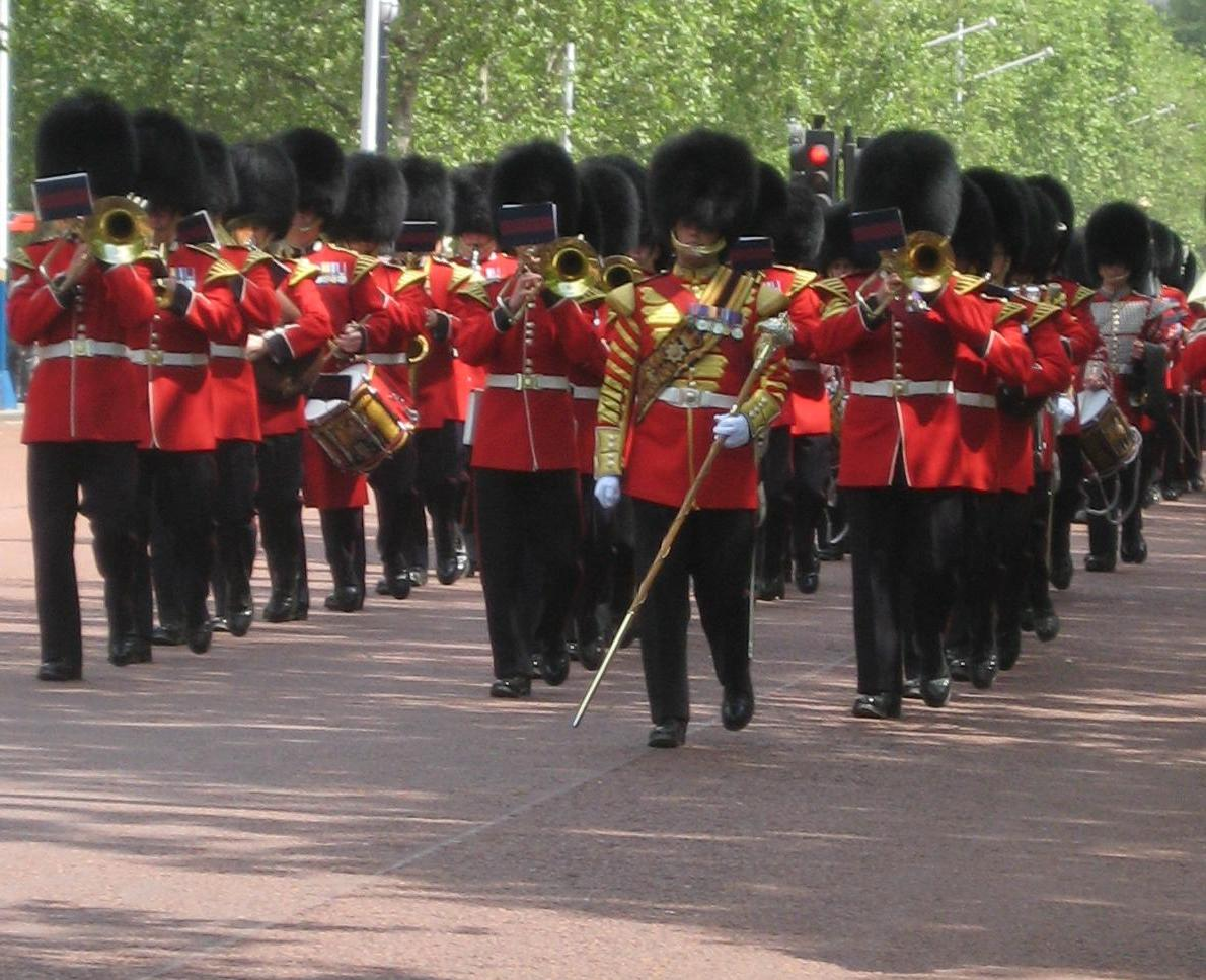 Scots Guards Band marches up the mall for changing of the guard, and Welsh guards drummers followed.